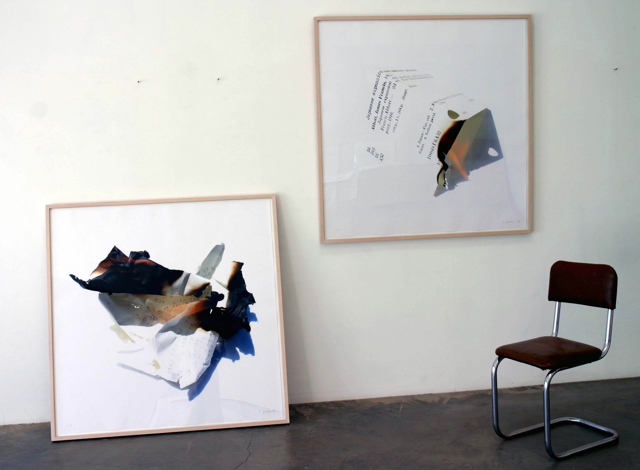 Studio of Gloria Graham's Studio, 2009, photo by Gloria Graham